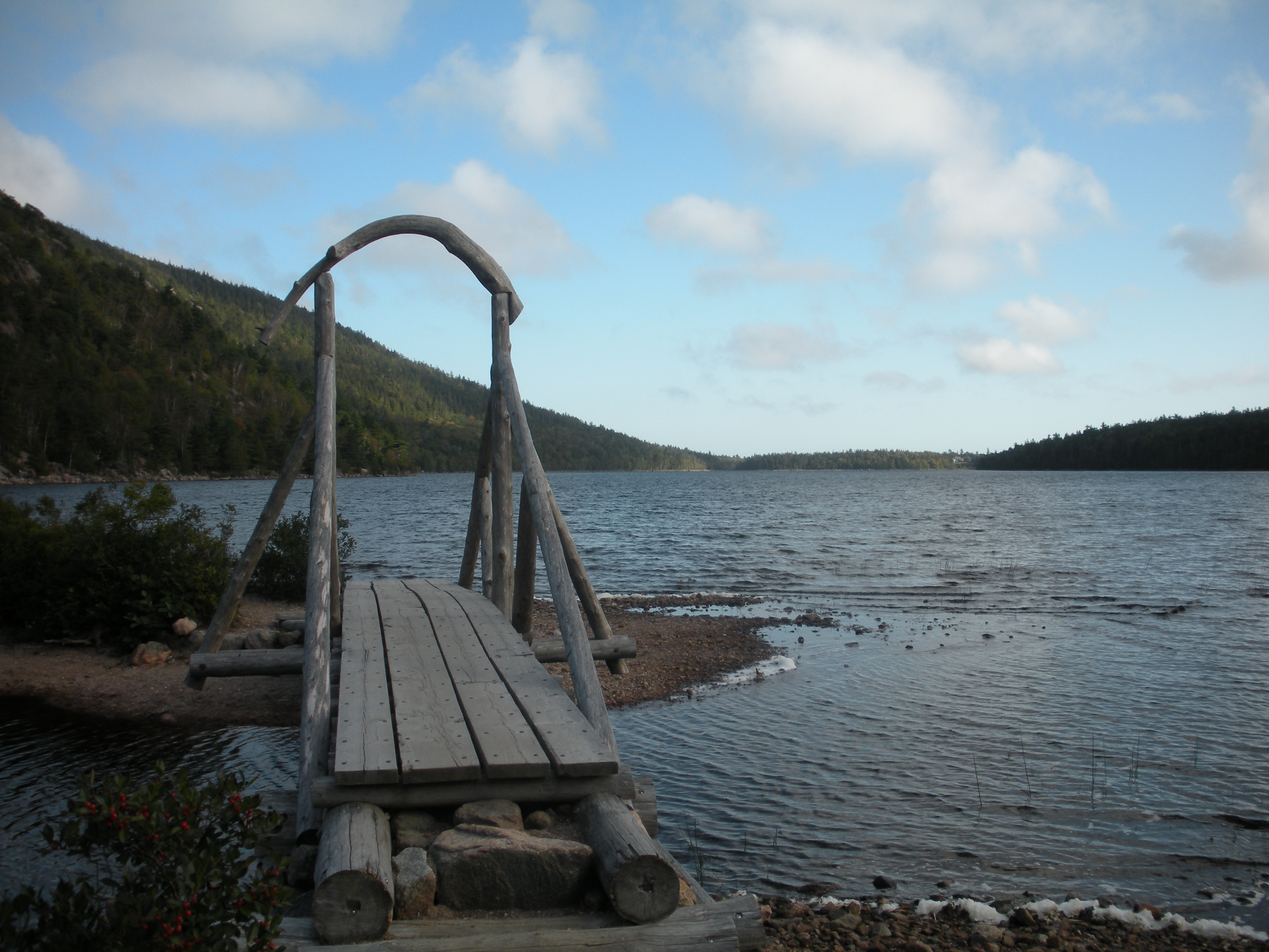 Wooden bridge on Jordan Pond in Bar Harbor, Maine.